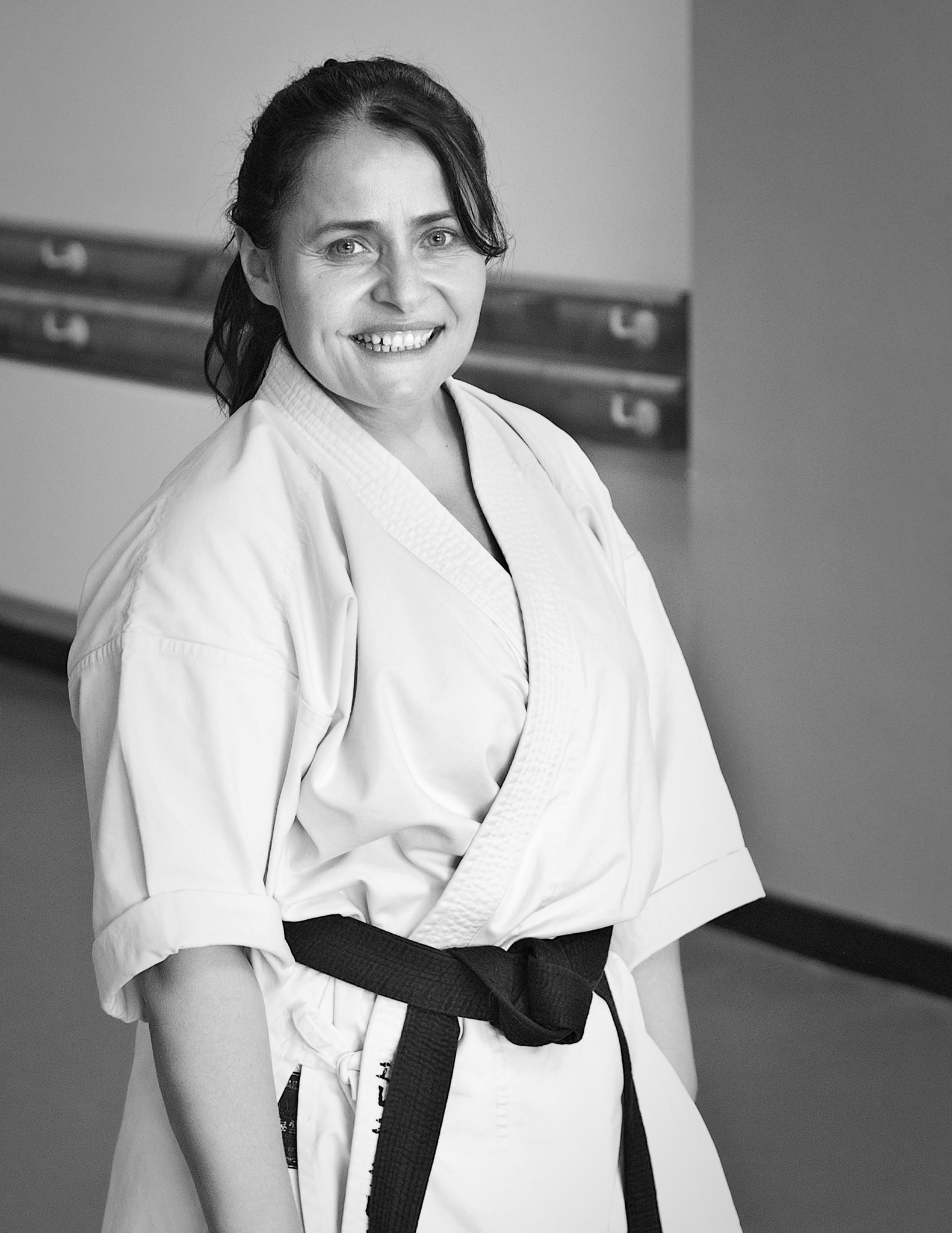 Eleni Labiri WIKF Executive Assistant to the Board 6th Dan Black Belt Recognized by Tatsuo Suzuki.